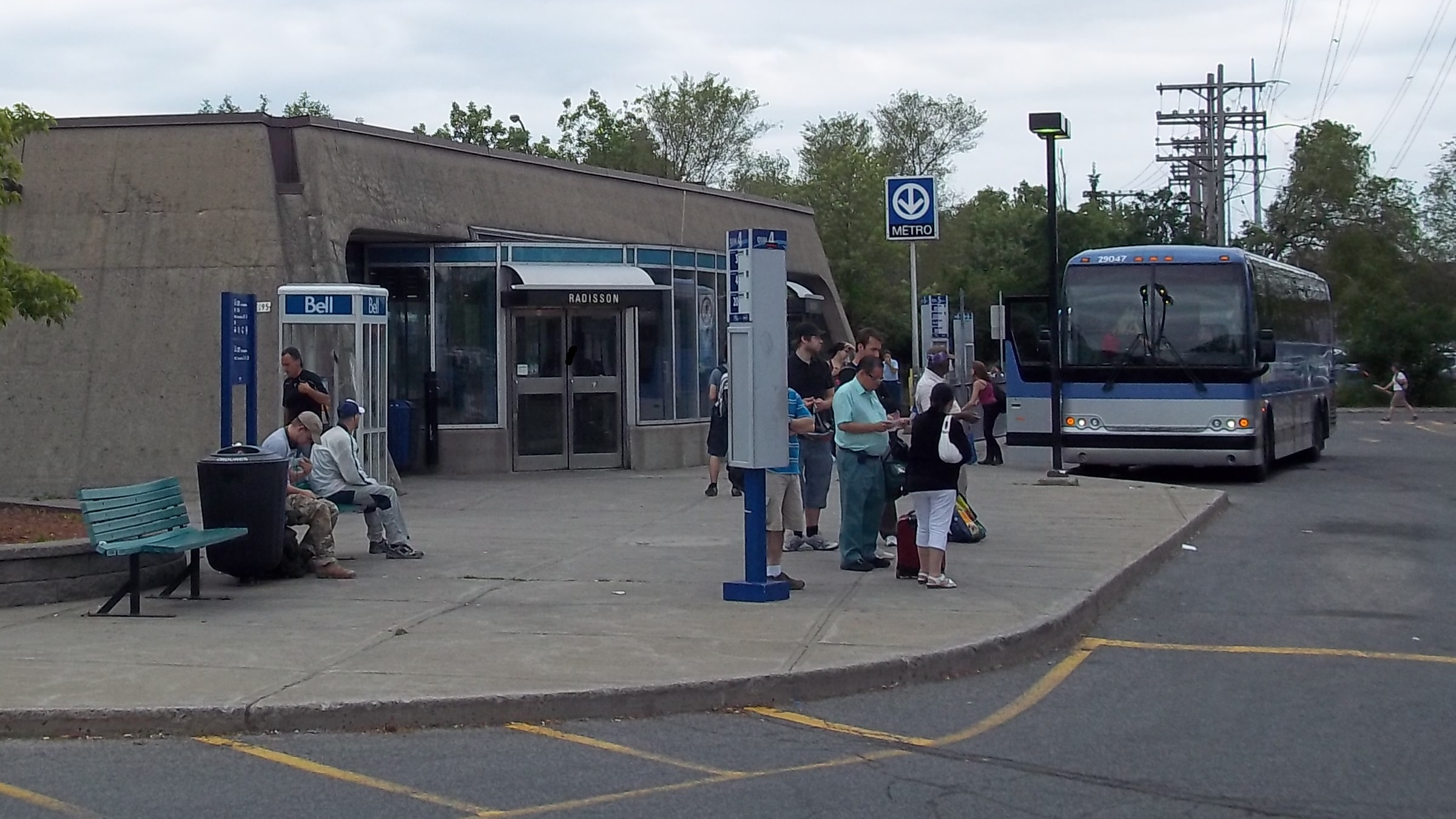 Bus terminus at Radisson